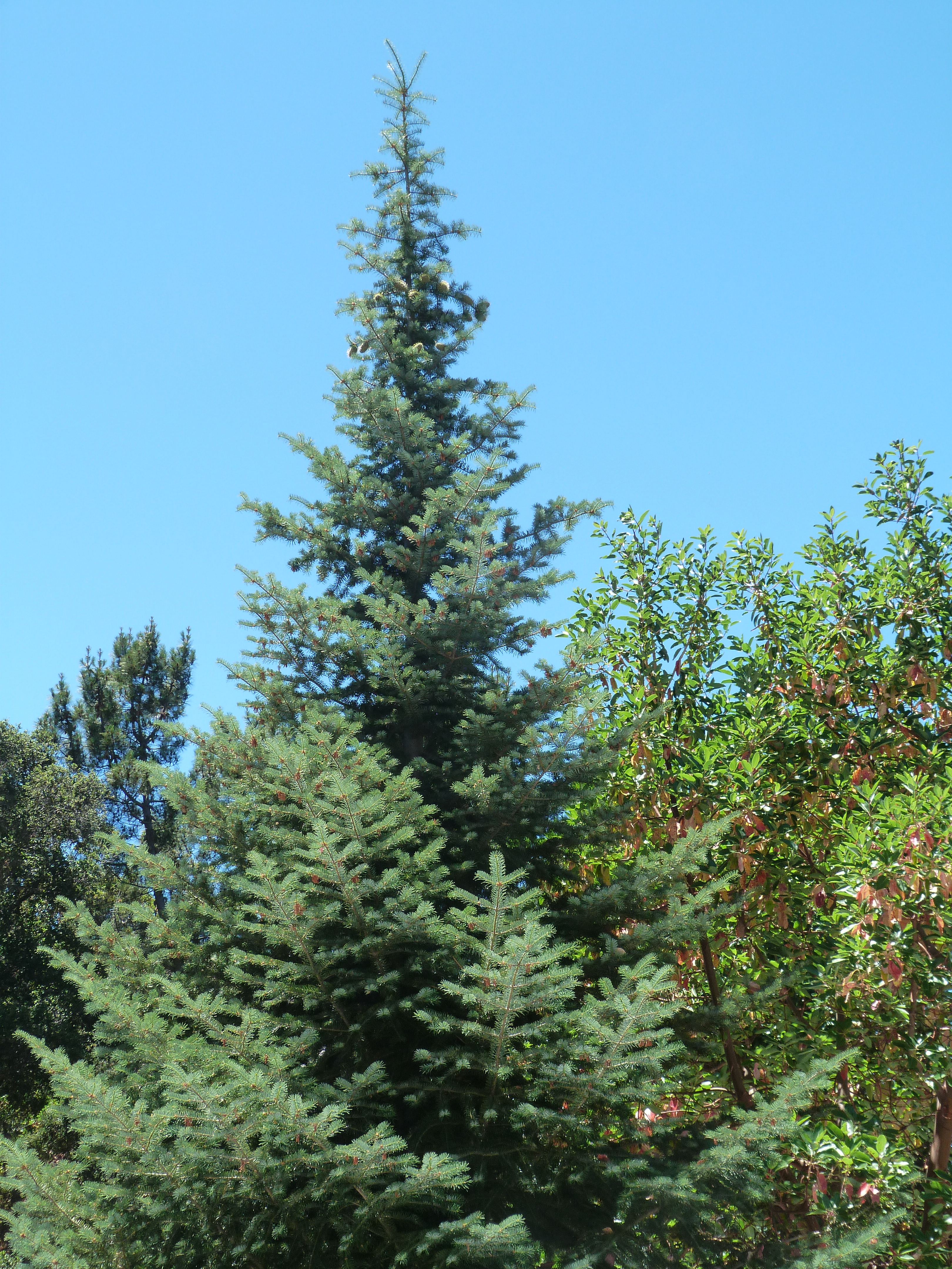 Abies bracteata young tree with cones, Bottcher's Gap, California, USA